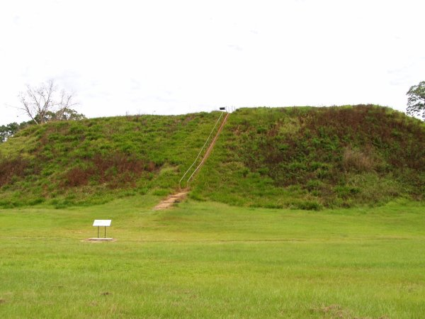 Temple Mound at Kolomoki Mounds State Historic Park.